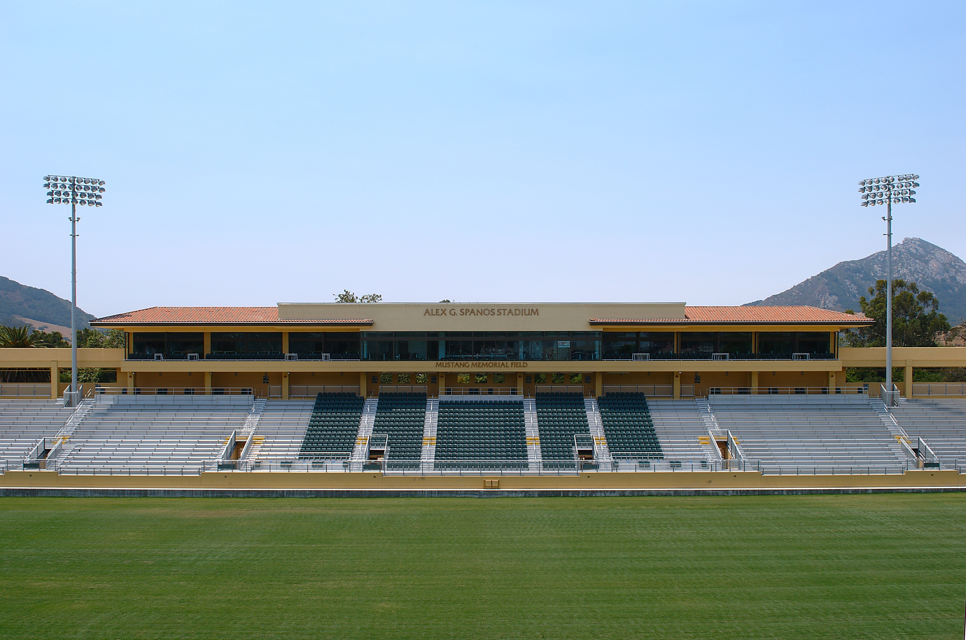 Alex G. Spanos Stadium at Cal Poly, San Luis Obispo, CA.